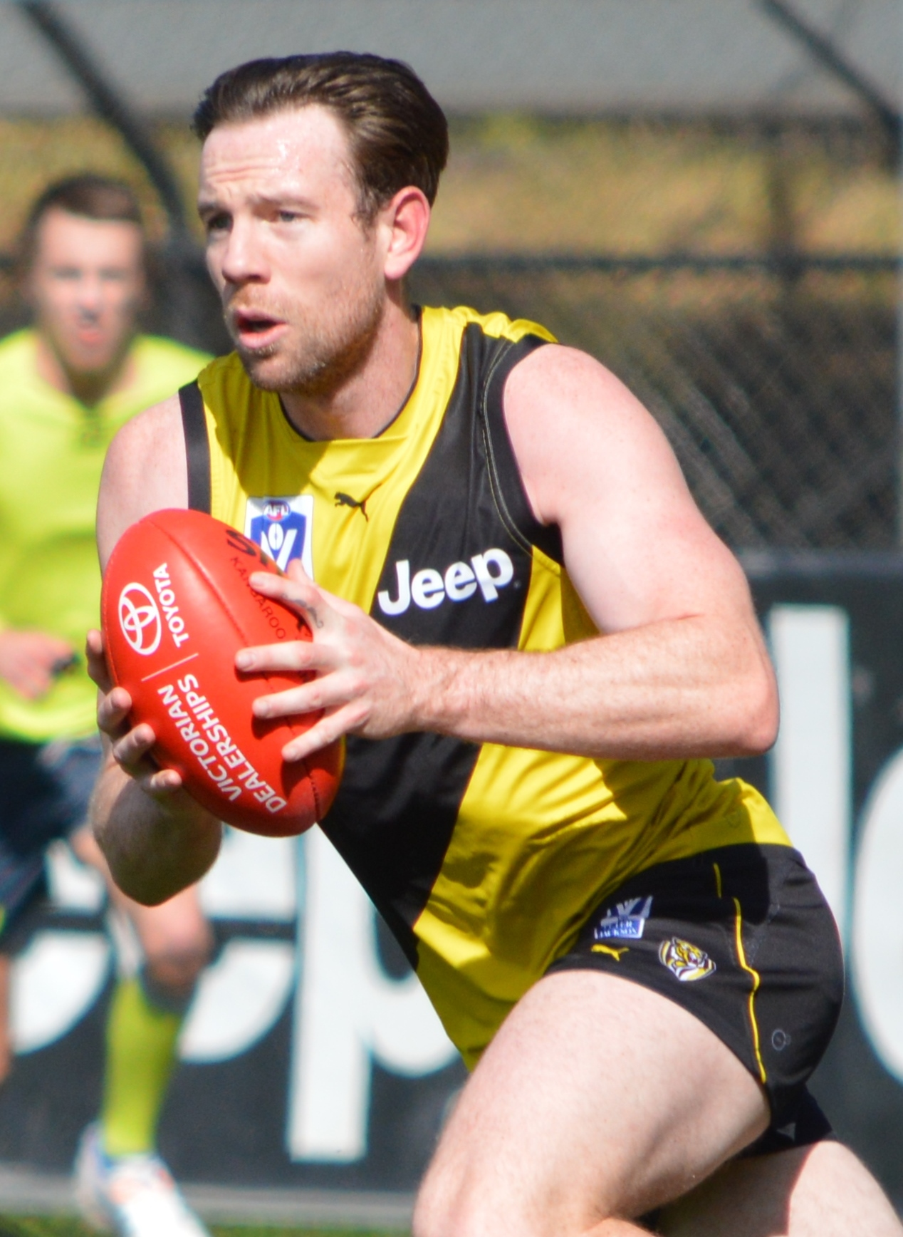 Jake Batchelor during a VFL game in August 2017